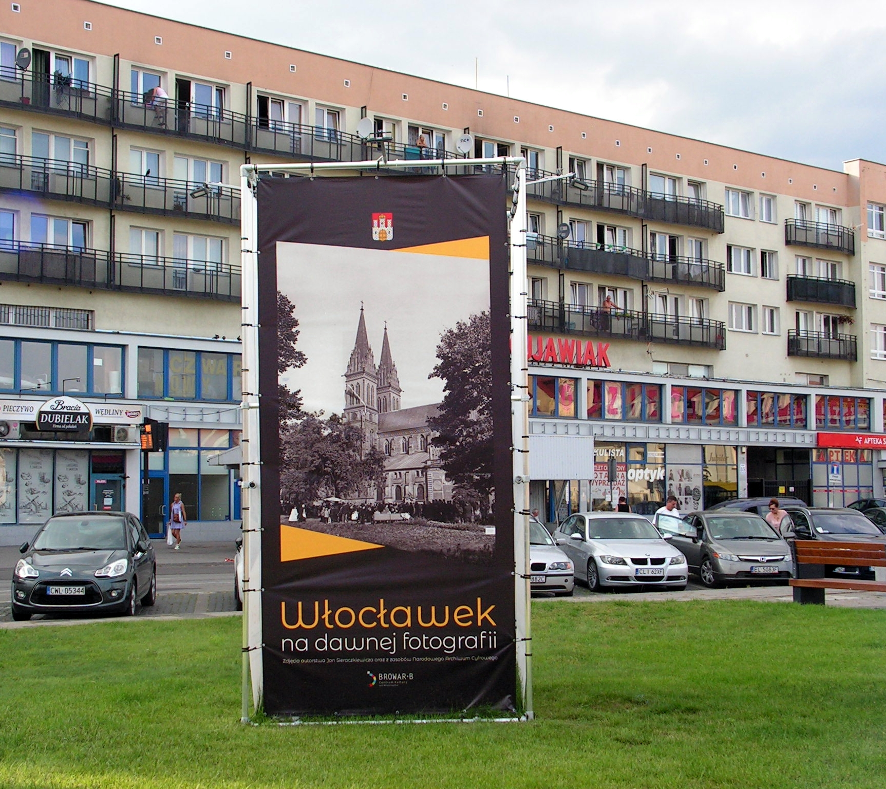 Main banner of exbisition "Włocławek na dawnej fotografii" ("Włocławek on the old photography"), installed on 26th of June at Wolności Square in Włocławek. Exhibition was organised mostly from photographs by Jan Sieczarkiewicz, couple of photos was also from Narodowe Archiwum Cyfrowe (National Digital Archive).